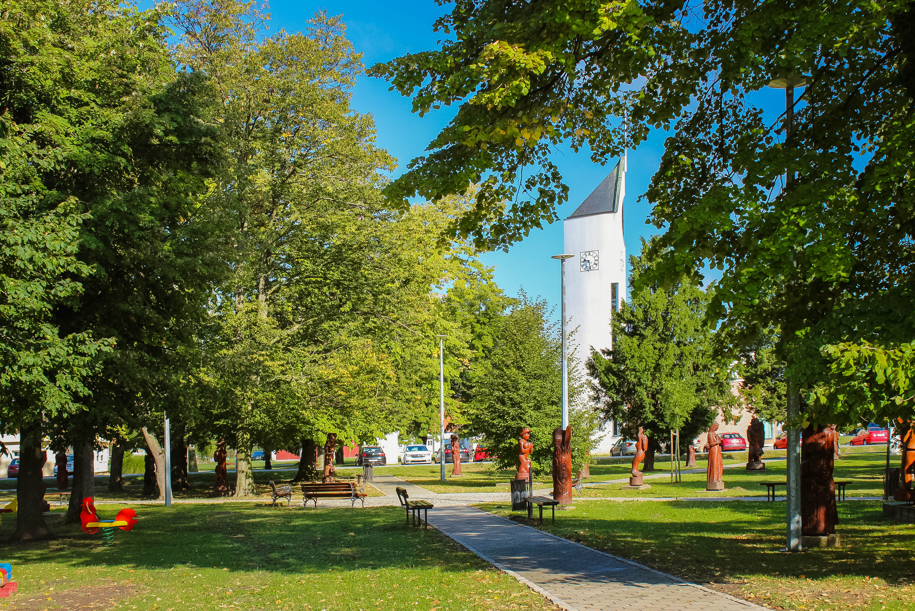 Park in Ernestinovo